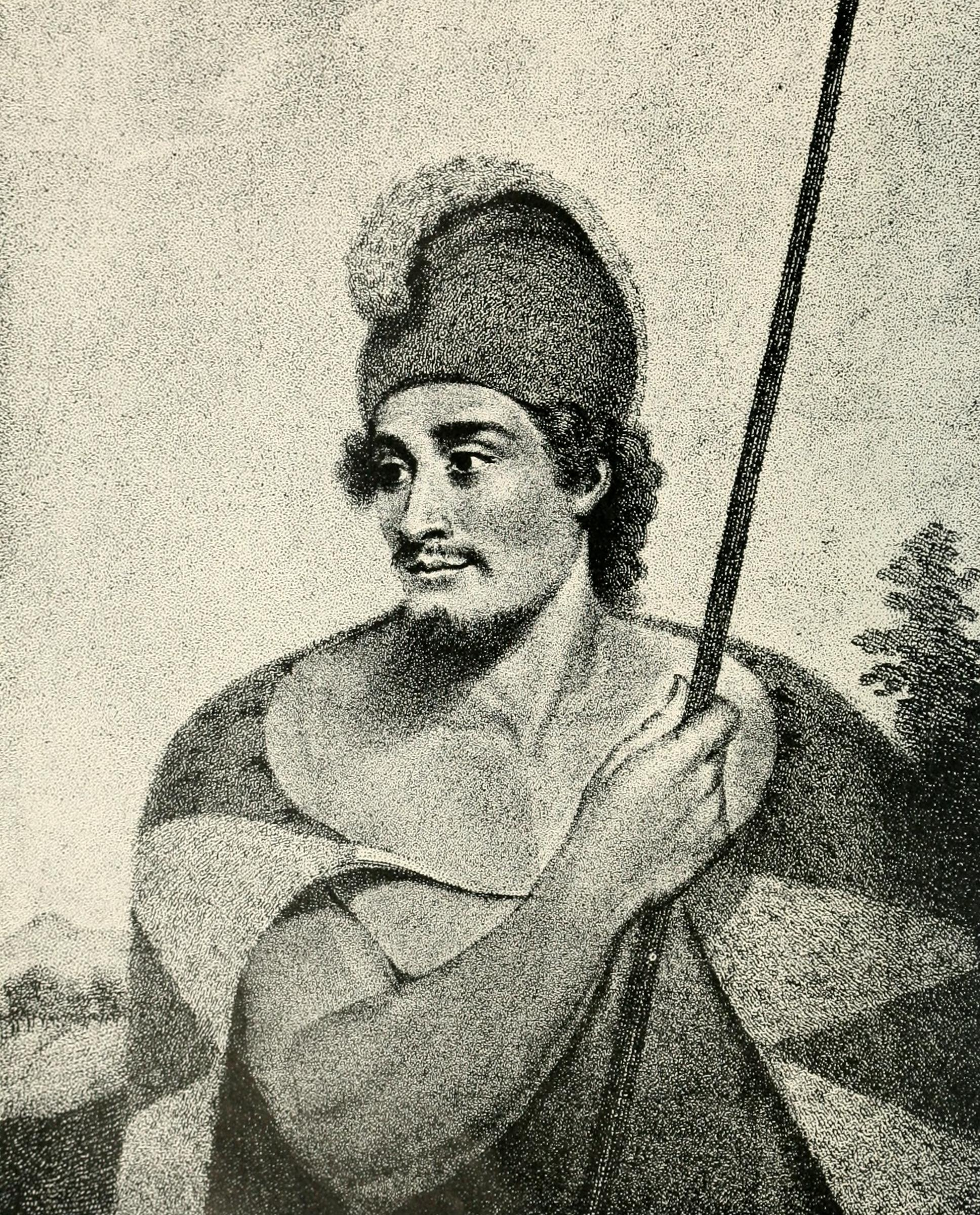 Tianna, a Prince of Atooi or Ka'iana, lithograph after painting by Spoilum, 1787. in John Meares. Voyages Made in the Tears 1788 and 1789.